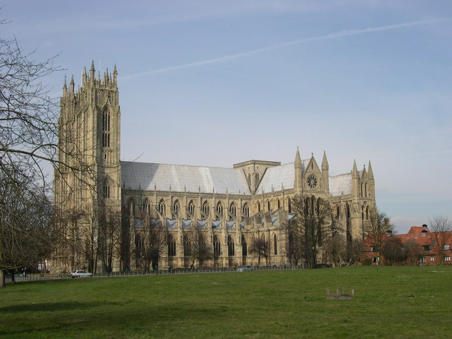 Beverley Minster, Beverley in the East Riding of Yorkshire, England.